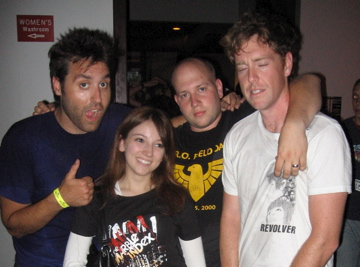 Marble Index members Brad Germain, Ryan Tweedle and Adam Knickle pose with a fan after a show at the One On Whyte in Edmonton, Alberta, Canada.